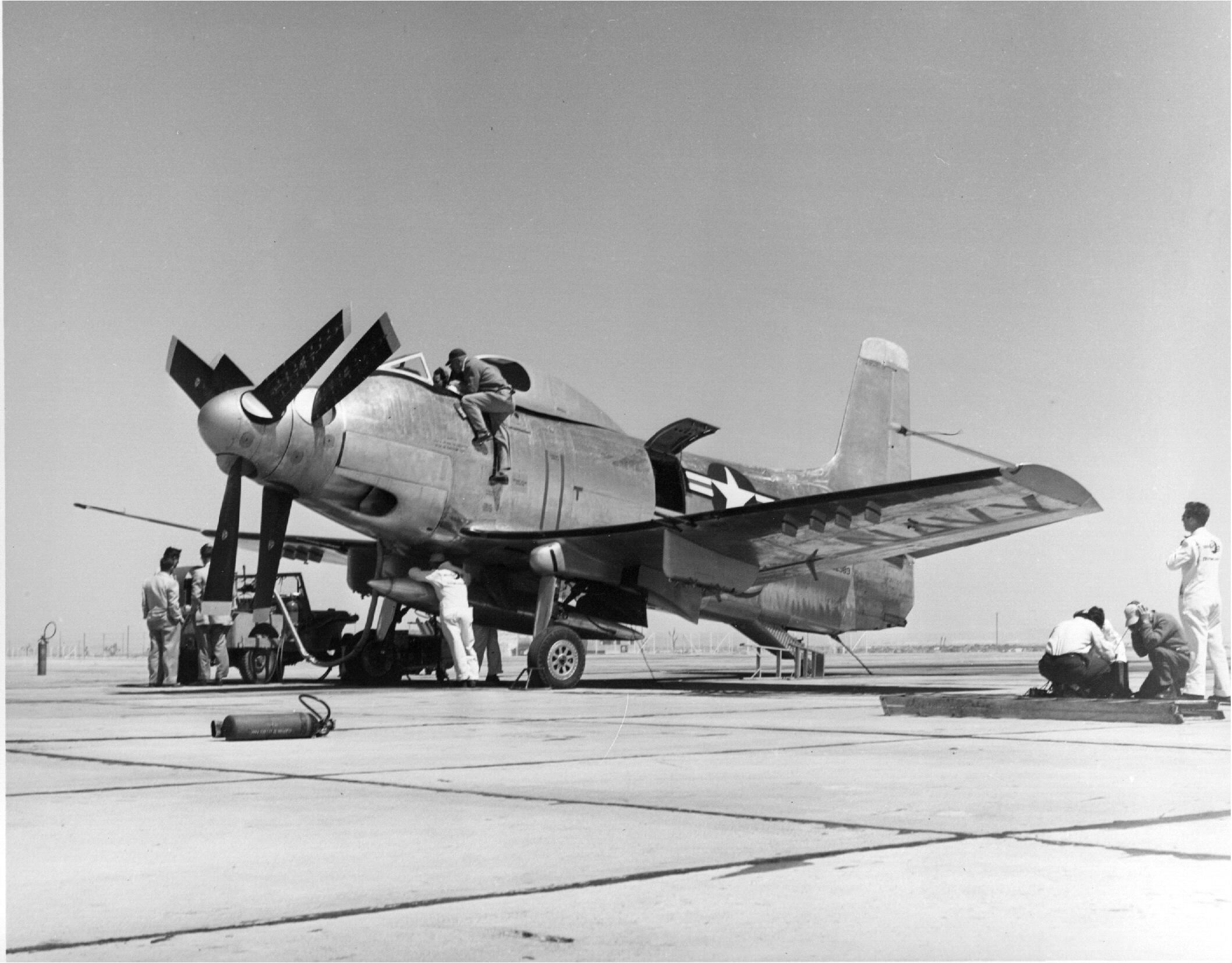 The second prototype U.S. Navy Douglas XA2D-1 Skyshark (BuNo 122989) at Edwards Air Force Base, California (USA). This aircraft made its first flight on 3 April 1952.